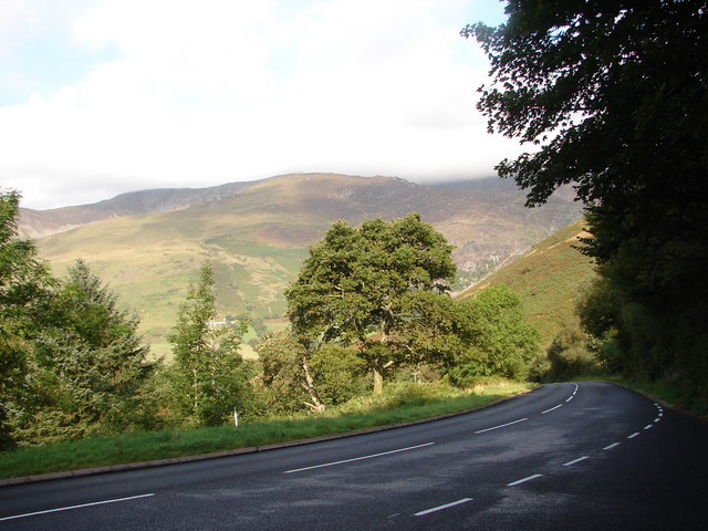 A487 Road, near to Corris Uchaf, Gwynedd, Great Britain. Looking towards Cadair Idris.